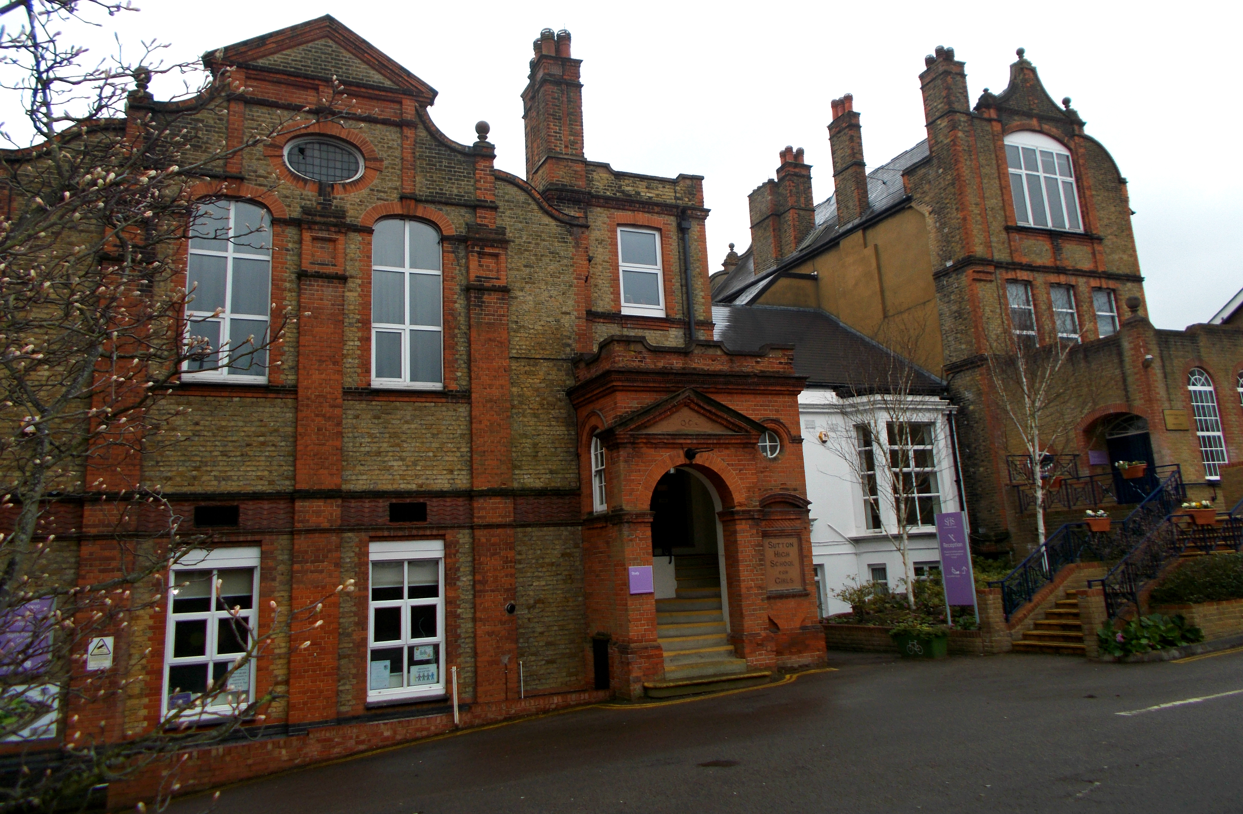 Sutton High School, SUTTON, Surrey, Greater London (4)